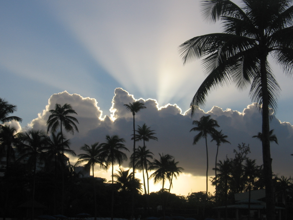 Sunset behind palm trees and clouds from the beach at the Caribe Hilton in San Juan, Puerto Rico.